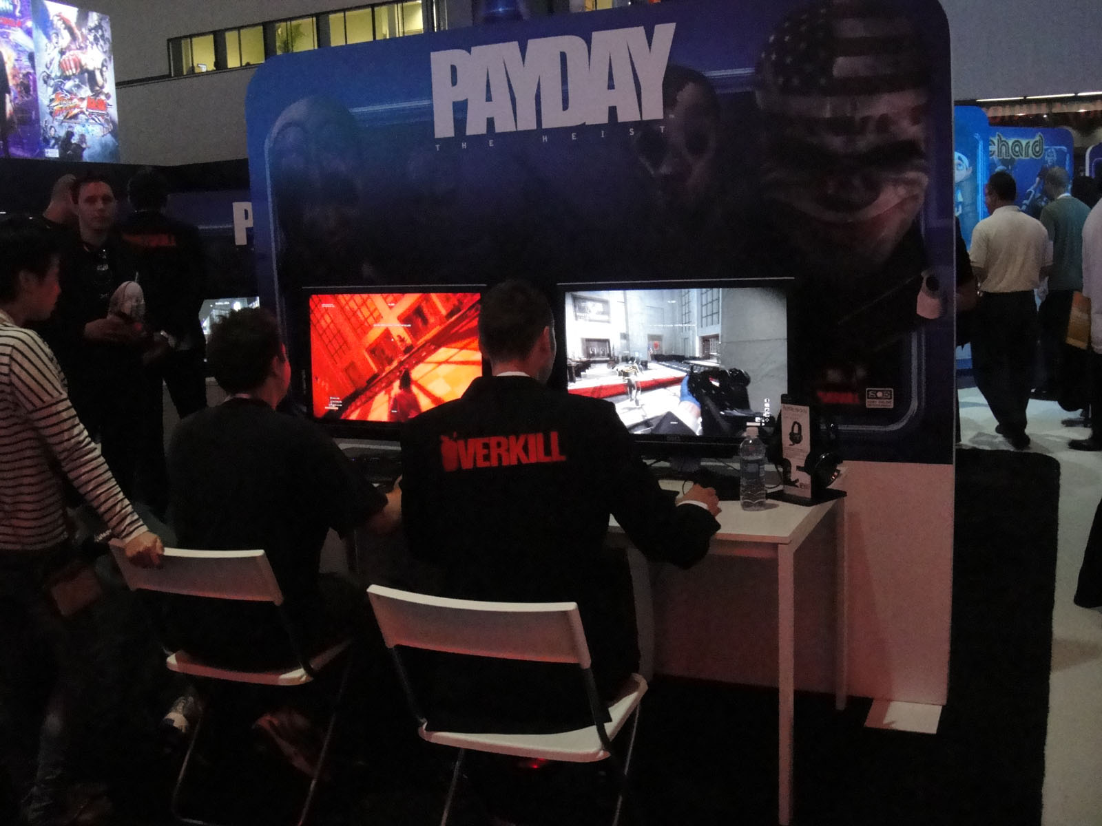 photo 2011 taken by Doug Kline If you're interested in higher resolution versions of my images, contact me via my profile page.